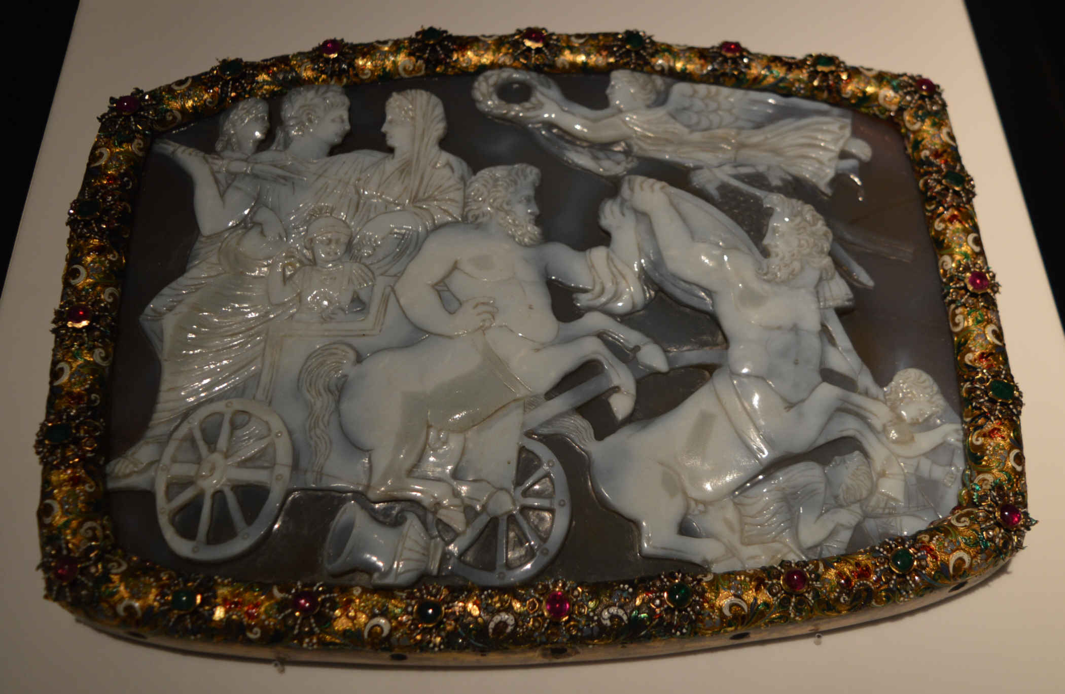 Claudius, Messalina, and their two children in what is known as the "Hague Cameo" or Gemma Constantiniana. The Gemma Constantina, c. CE 312, forming part of the Batavia Treasure, recovered in 1629. Dimensions 180 x 265mm. Now in the Rijksmuseum van Oudheden in Leiden (once in the Royal Penningkabinet). Photographed while on loan to the Western Australia Maritime Museum, Fremantle, in March 2017.